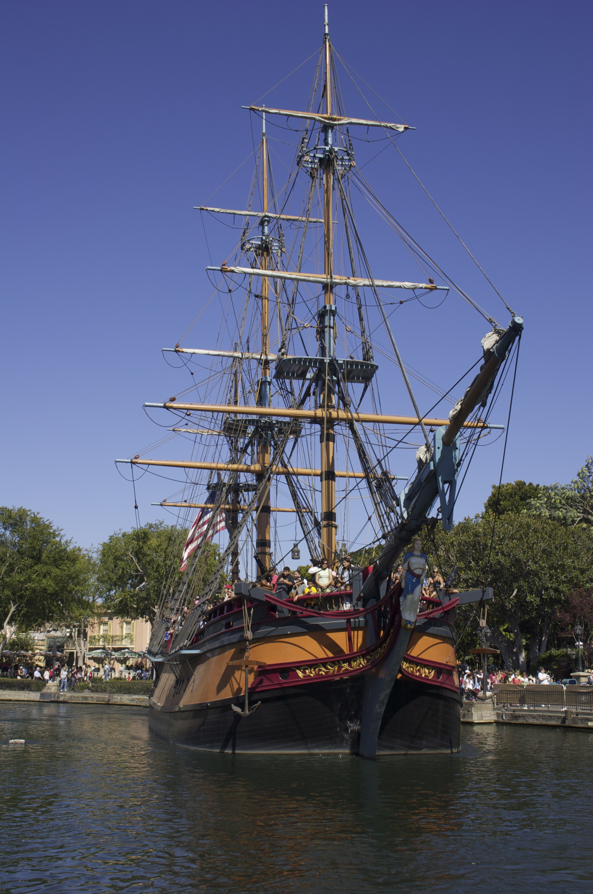 The Sailing Ship Columbia at Disneyland